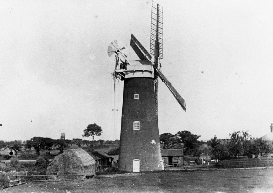 The tower mill at Corton, Suffolk. Dated 1810 on source, but mill wasn't built until 1837 and photography didn't start until the 1840s, so must date from 1910.